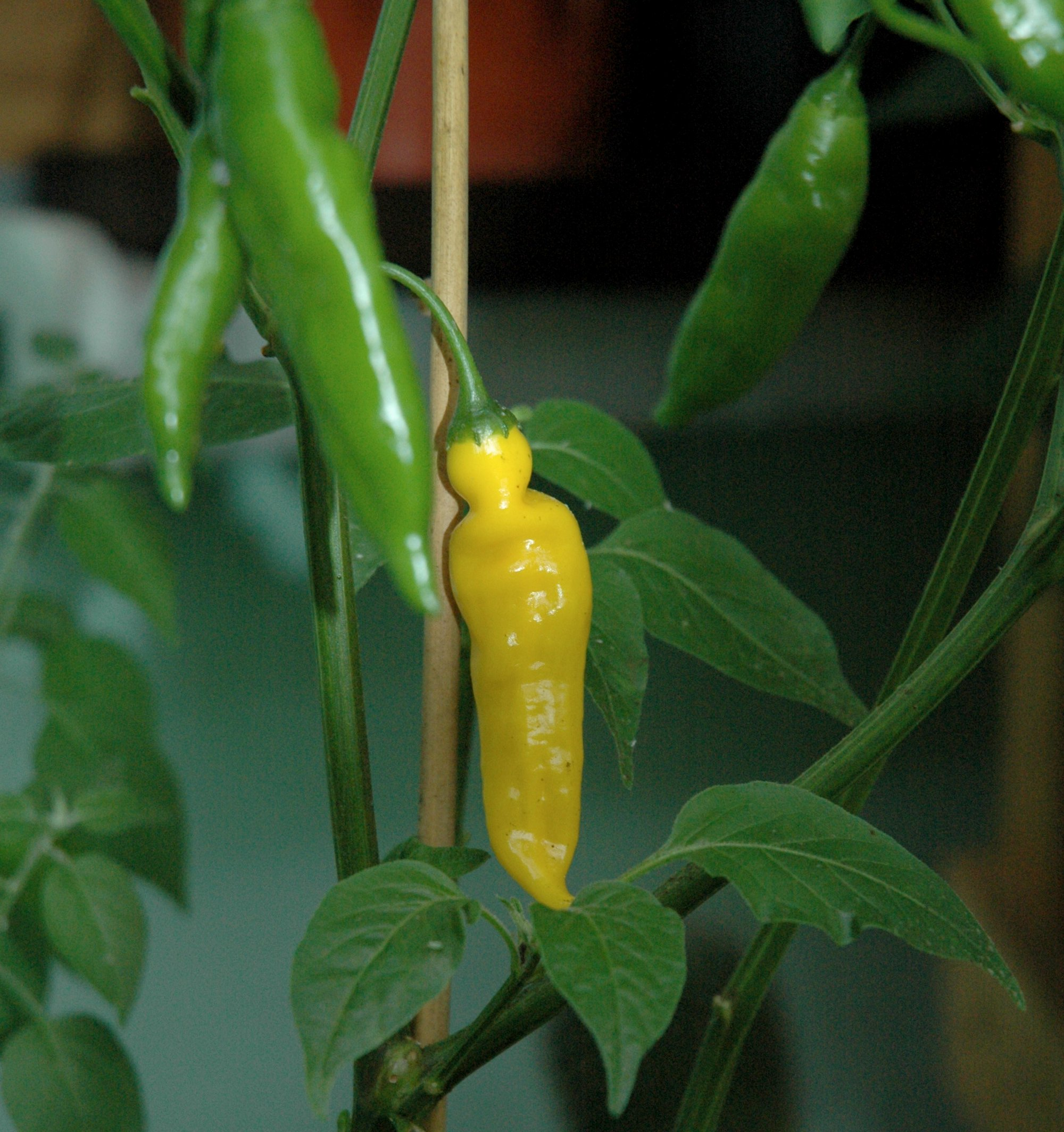 Ripe and unripe fruit of Capsicum baccatum variety 'Lemon Drop'